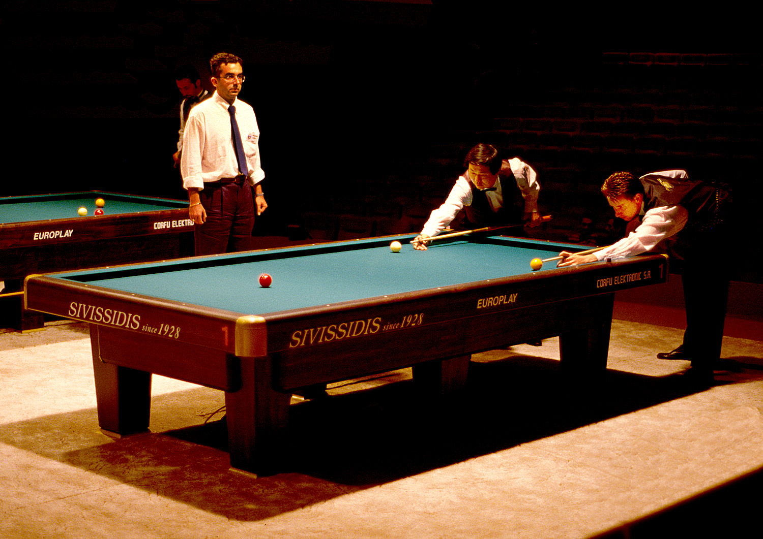 Sang Chun Lee (USA) & Christian Rudolph (DEU) at their kick-off at the round of sixteen, 1998/5 World Cup in Korfu.